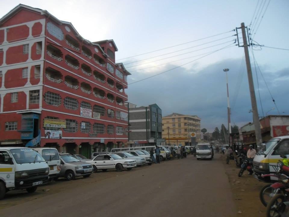 Gatundu town showing the Landmark House and the Happy Supermarket